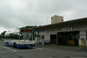 Yamajo Station